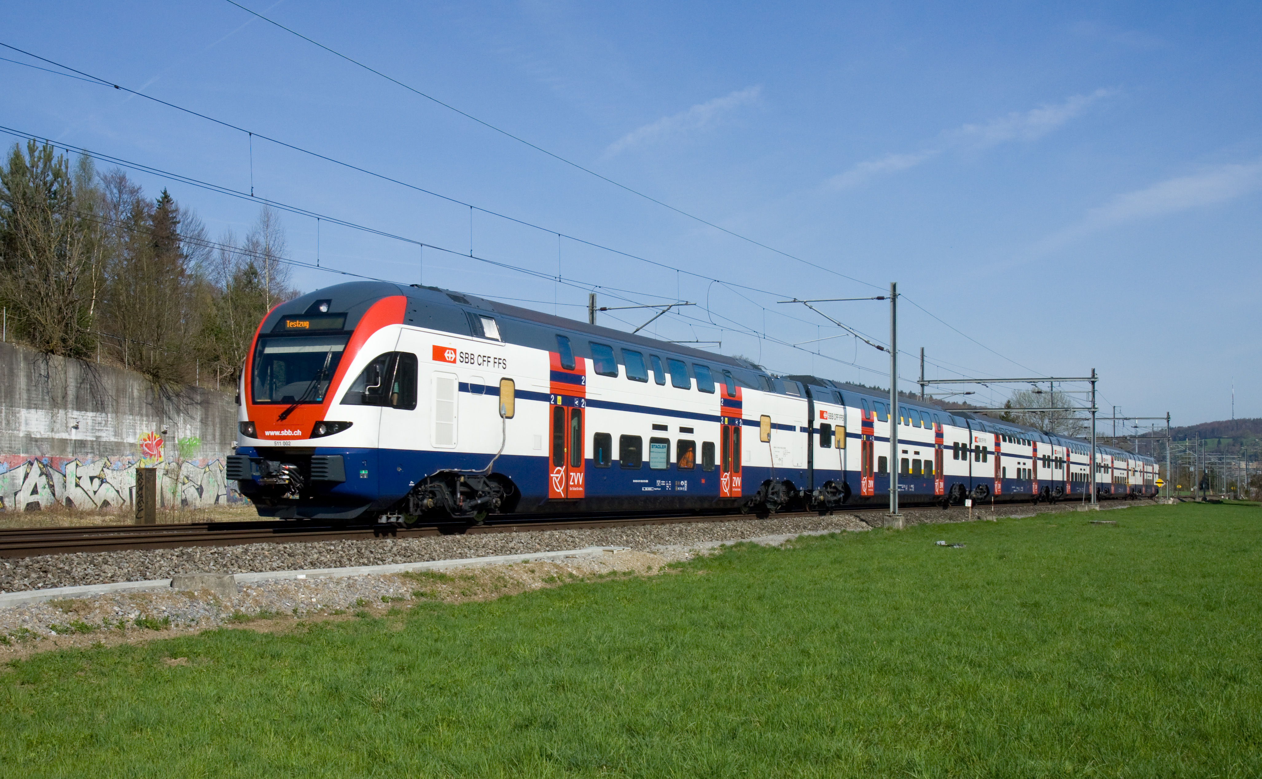 The Stadler KISS (SBB RABe 511) are the latest generation of double deck multiple units for the Zurich S-Bahn. This is unit 002 on a trial run. They tested how well it works in "real world" S-Bahn service (without passengers). The picture was taken near Tössmühle, between Winterthur and Kemptthal.